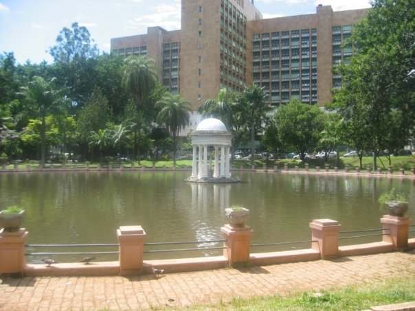 Parque Municipal in Belo Horizonte